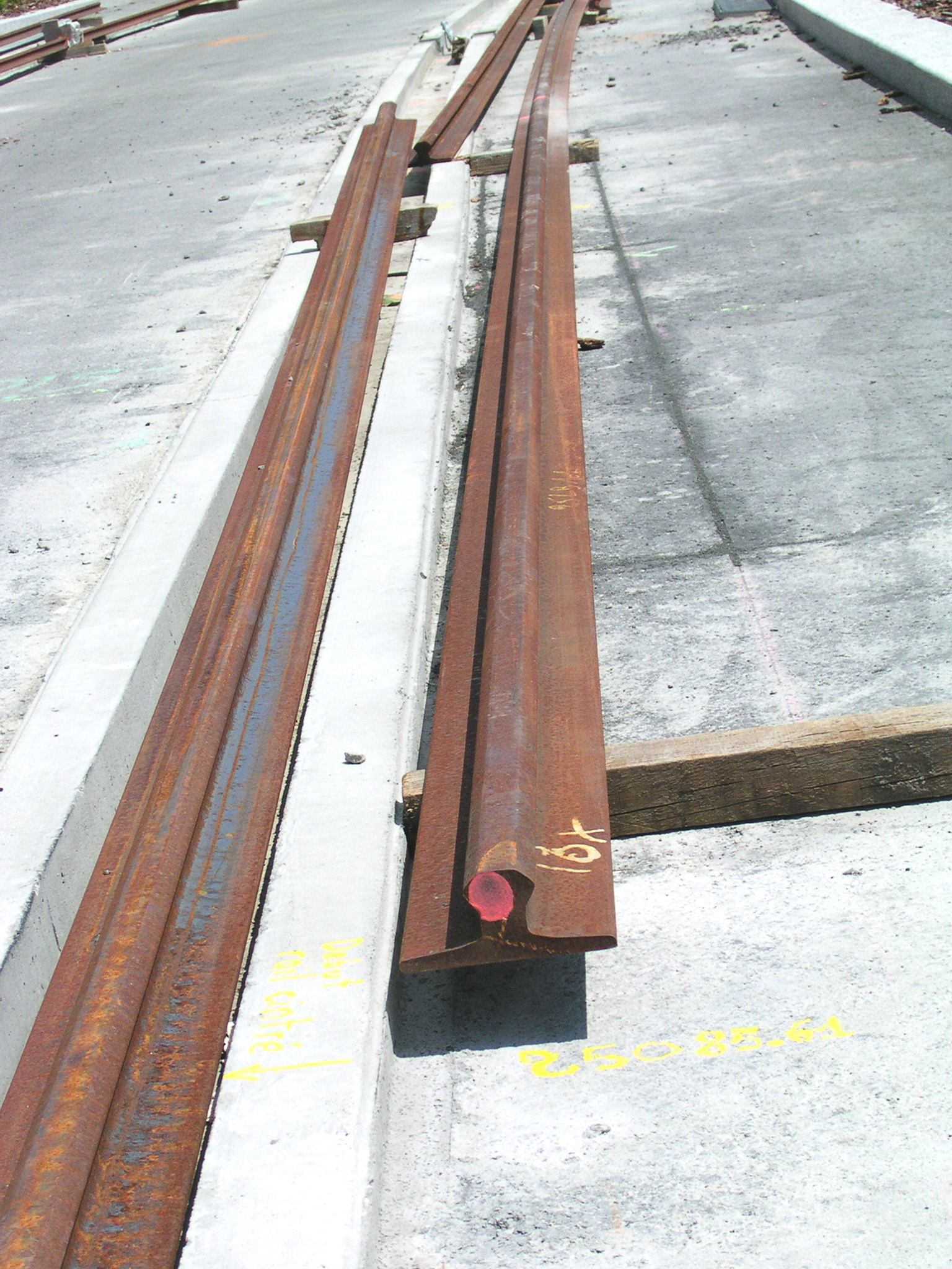 rolled product : steel rail (Clermont-Ferrand, guiding system of the tram) Auteur/Author : Romary Juin/June 2006